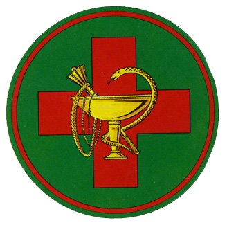 Military Medical Directorate (Ministry of Defense) sleeve insignia